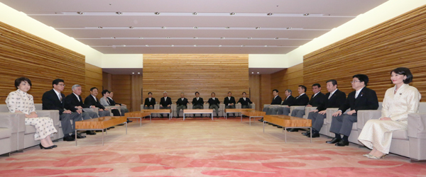 Shinzō Abe, Prime Minister, posed for the photo with Sanae Yamamoto, Mitsuhide Iwaki, Fumio Kishida, Tarō Asō, Hiroshi Hase, Yasuhisa Shiozaki, Hiroshi Moriyama, Motoo Hayashi, Keiichi Ishii, Tamayo Ōtsuka, Gen Nakatani, Yoshihide Suga, Tsuyoshi Takagi, Tarō Kōno, Aiko Shimajiri, Akira Amari, Katsunobu Katō, Shigeru Ishiba, Toshiaki Endō, Ministers of State, Kōichi Hagiuda, Hiroshige Sekō, Kazuhiro Sugita, Deputy Chief Cabinet Secretaries, and Yūsuke Yokobatake, Director-General of the Cabinet Legislation Bureau, at the Prime Minister's Official Residence in Chiyoda Ward, Tōkyō Metropolis on October 7, 2015.